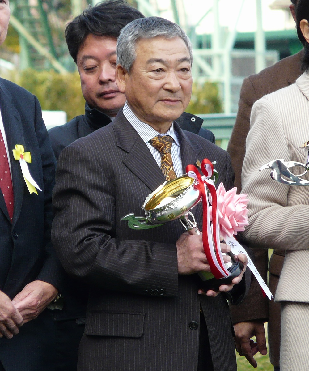 Shinobu-Hoshino20120324